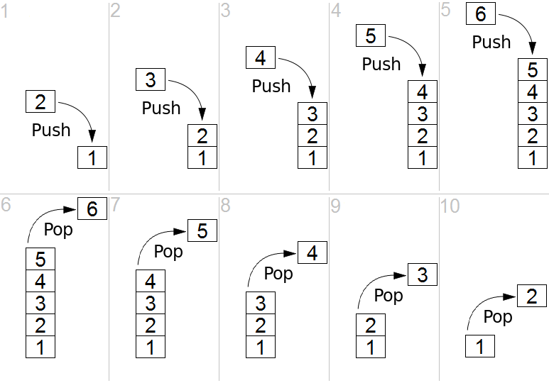 A LIFO (Last In First Out) stack, abstract data type, in a simple representation of a stack runtime with push and pop operations.